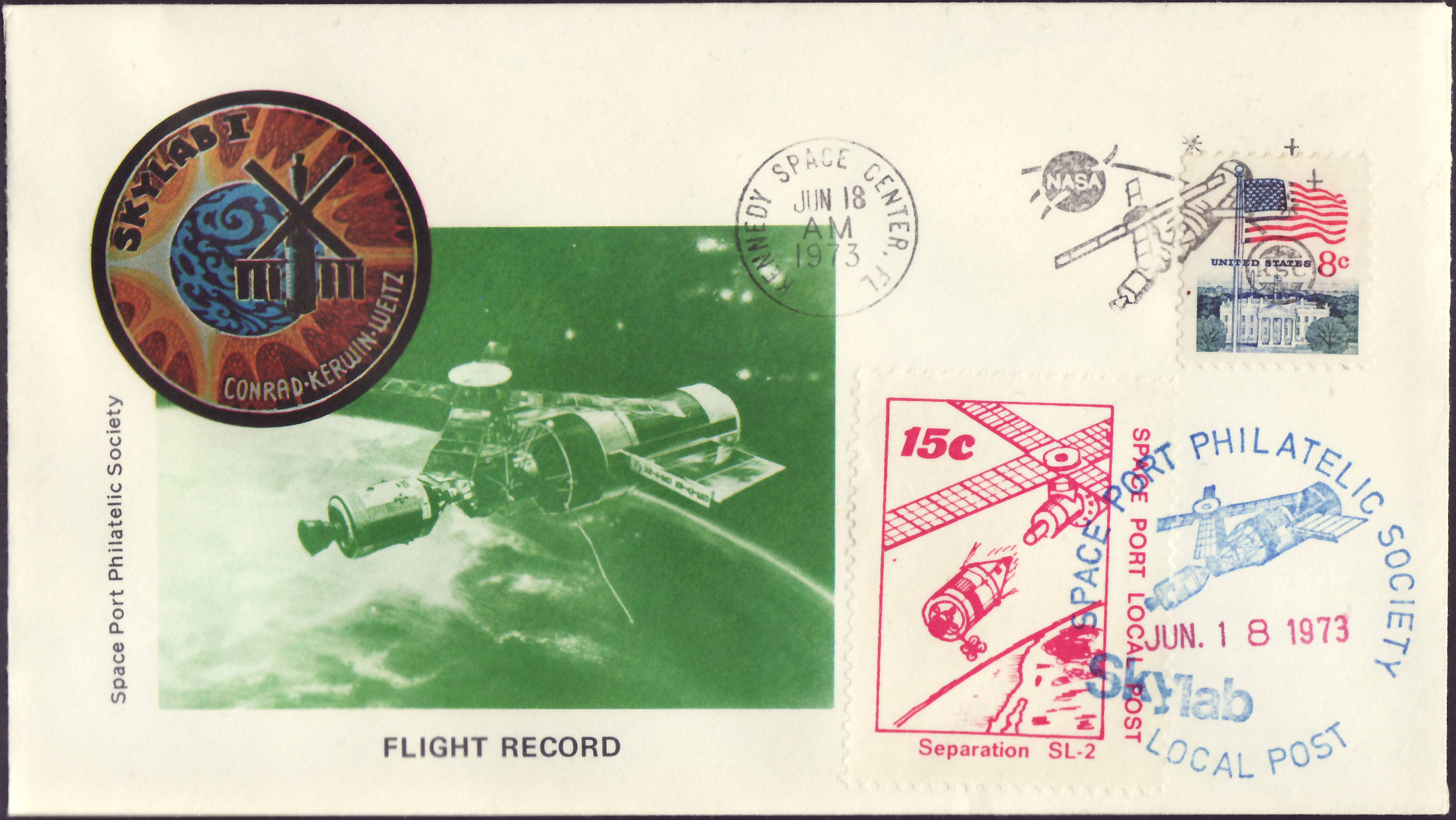 Special cover of the USA from 1973 to the Flight Record of the space station Skylab 1 of the NASA during the Skylab 2 - mission Stamp: USA, 1971; definitive stamp Michel No. 1033A; Yvert & Tellier No. 923 (US); US-flag and White House in Washington Nominal value: 8 C(ents) (currency in red color) Postmark: Kennedy Space Center, Florida, 18 June 1973 Launch of Skylab 1: 14 May 1973 at the Kennedy Space Center Launch Complex 39-A in Cape Canaveral (Florida/USA) Flight of Skylab 1: from 14 May 1973 until 11 July 1979 date QS:P,+1973-00-00T00:00:00Z/8,P580,+1973-05-14T00:00:00Z/11,P582,+1979-07-11T00:00:00Z/11 Carrier rocket at the launch of Skylab 1: Saturn V SA-513 Skylab 2 - mission: The astronauts Charles Conrad, Paul J. Weitz, Dr. Joseph P. Kerwin on board of Skylab 1 Skylab 2 - duration: from 25 May 1973 until 22 June 1973 date QS:P,+1973-00-00T00:00:00Z/9,P580,+1973-05-25T00:00:00Z/11,P582,+1973-06-22T00:00:00Z/11